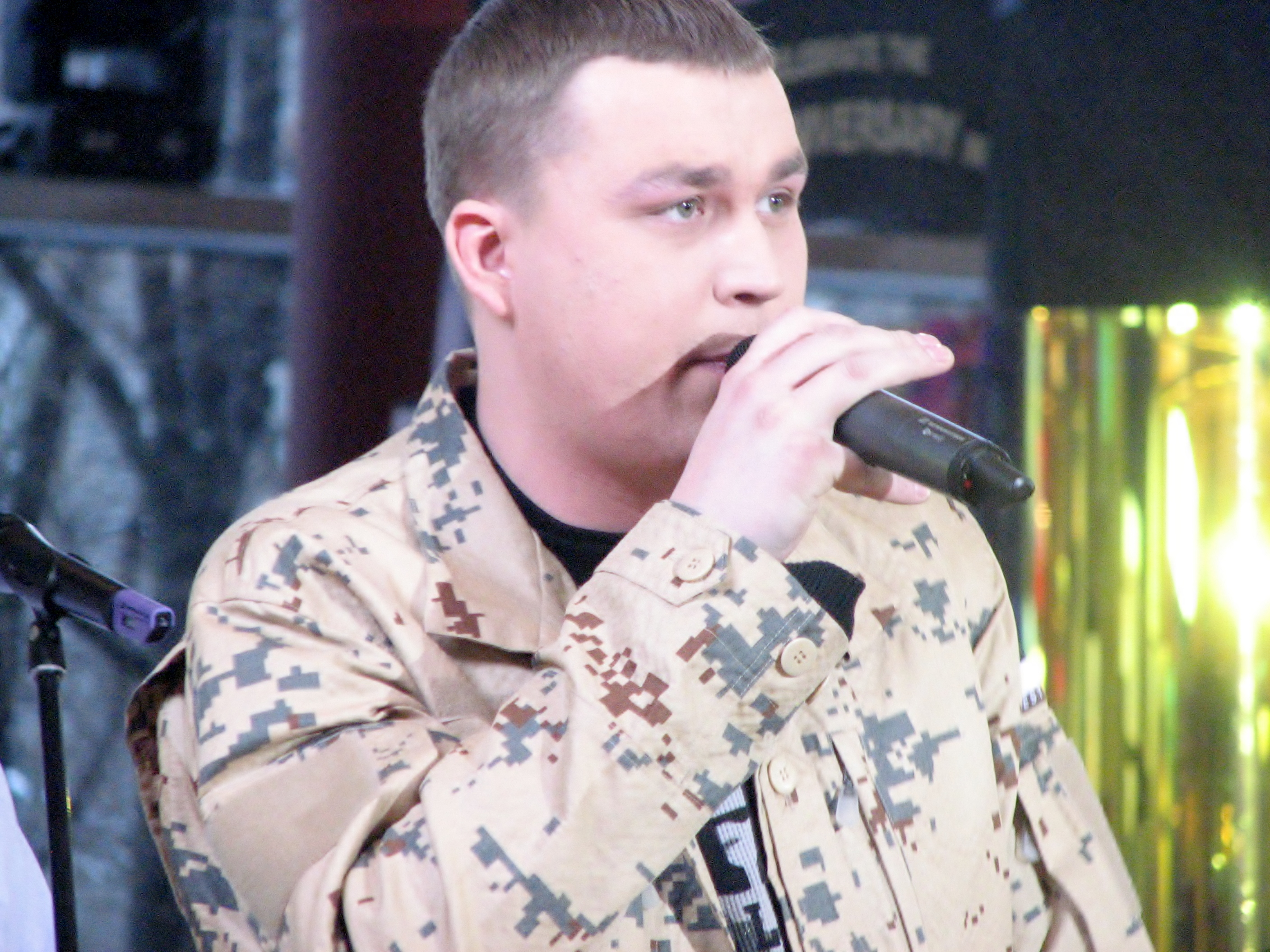 Singer of Estonian band Põhja-Tallinn in Solaris centre